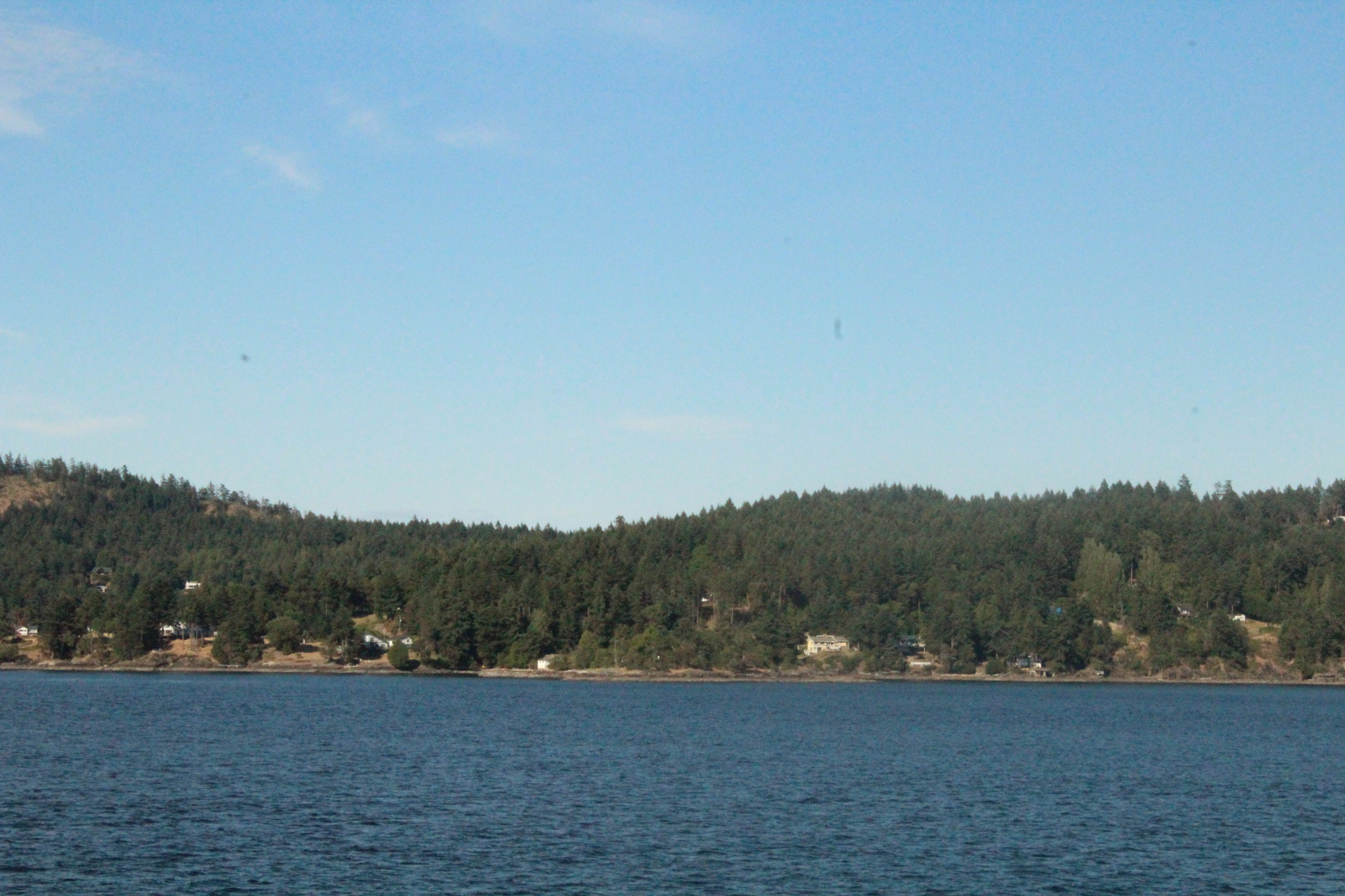 A view of North Pender Island from the west